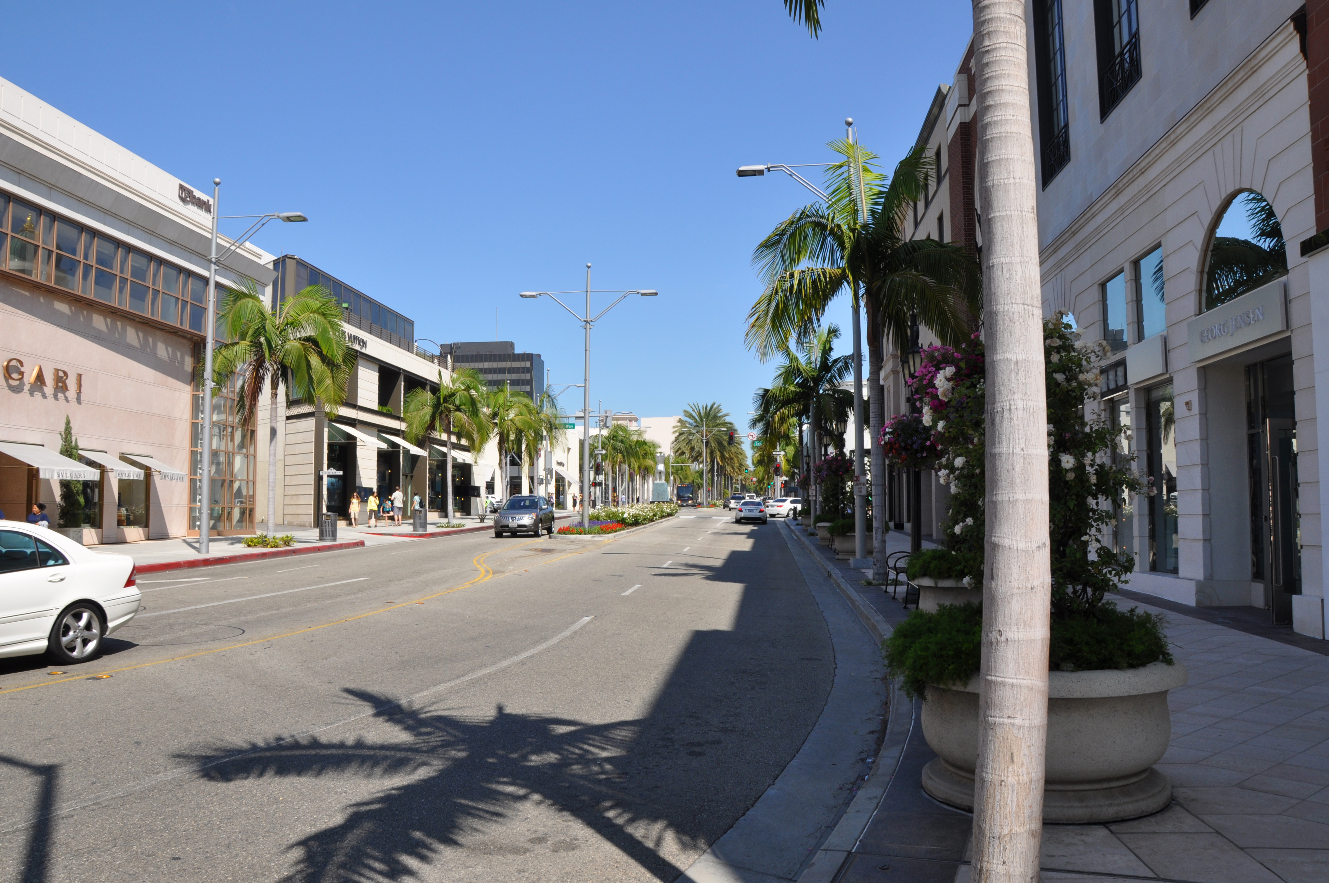 Beverly Hills, Los Angeles - CA